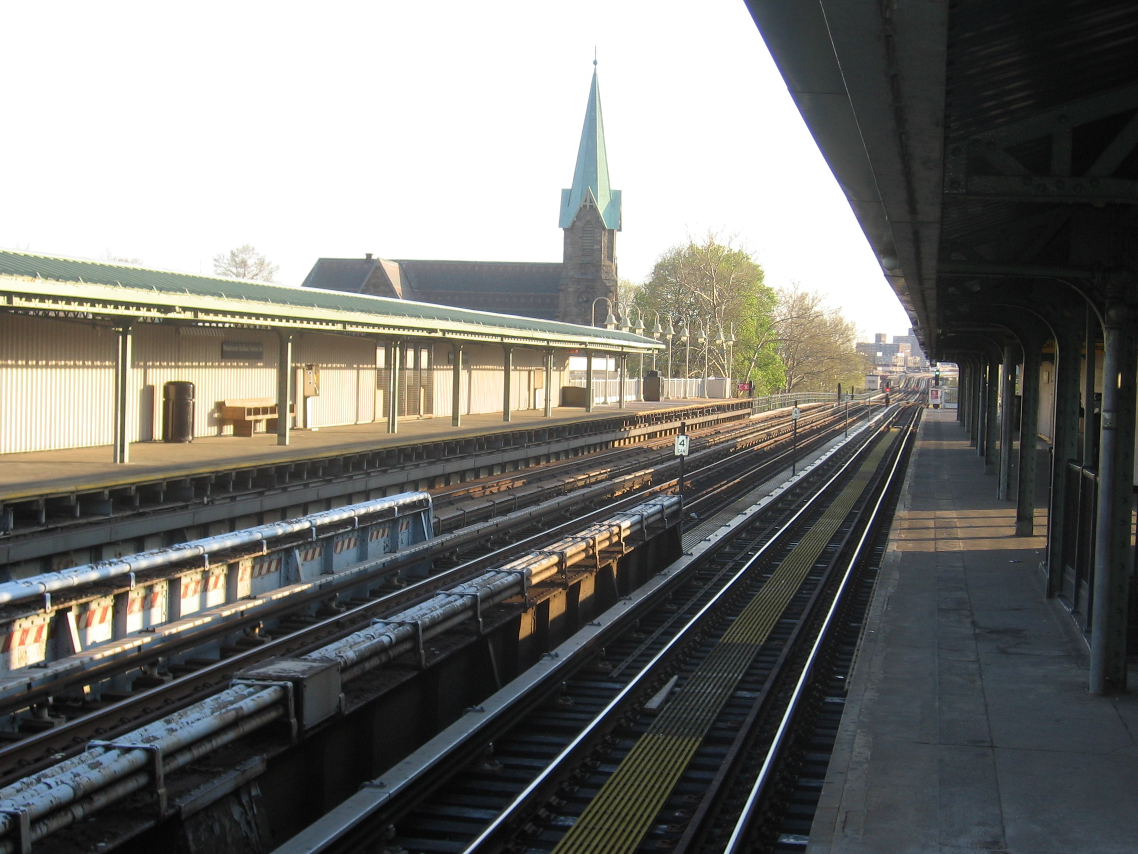 Taken by me, looking south from the southbound platform at Westchester Square-East Tremont Avenue toward Zerega Avenue. Taken May 2007.